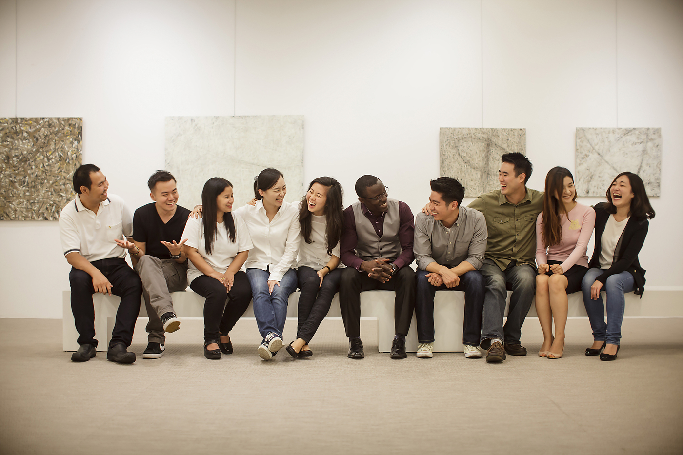 New Art Gallery